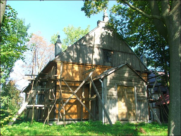 Mariavite Church in Markuszów (Lany)